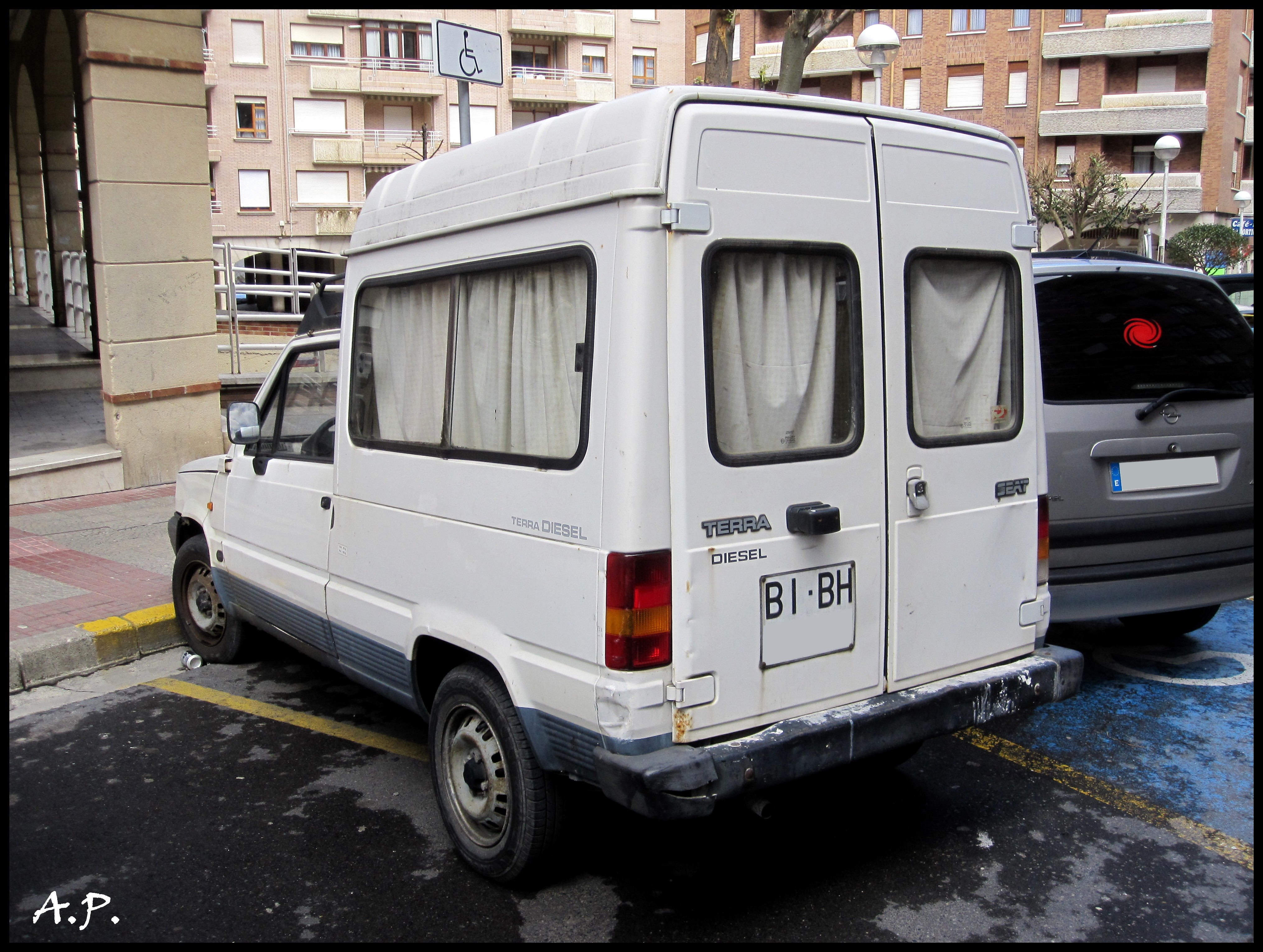 1991 plate from Bilbao (Vizcaya) but seen in Castro Urdiales (Cantabria).